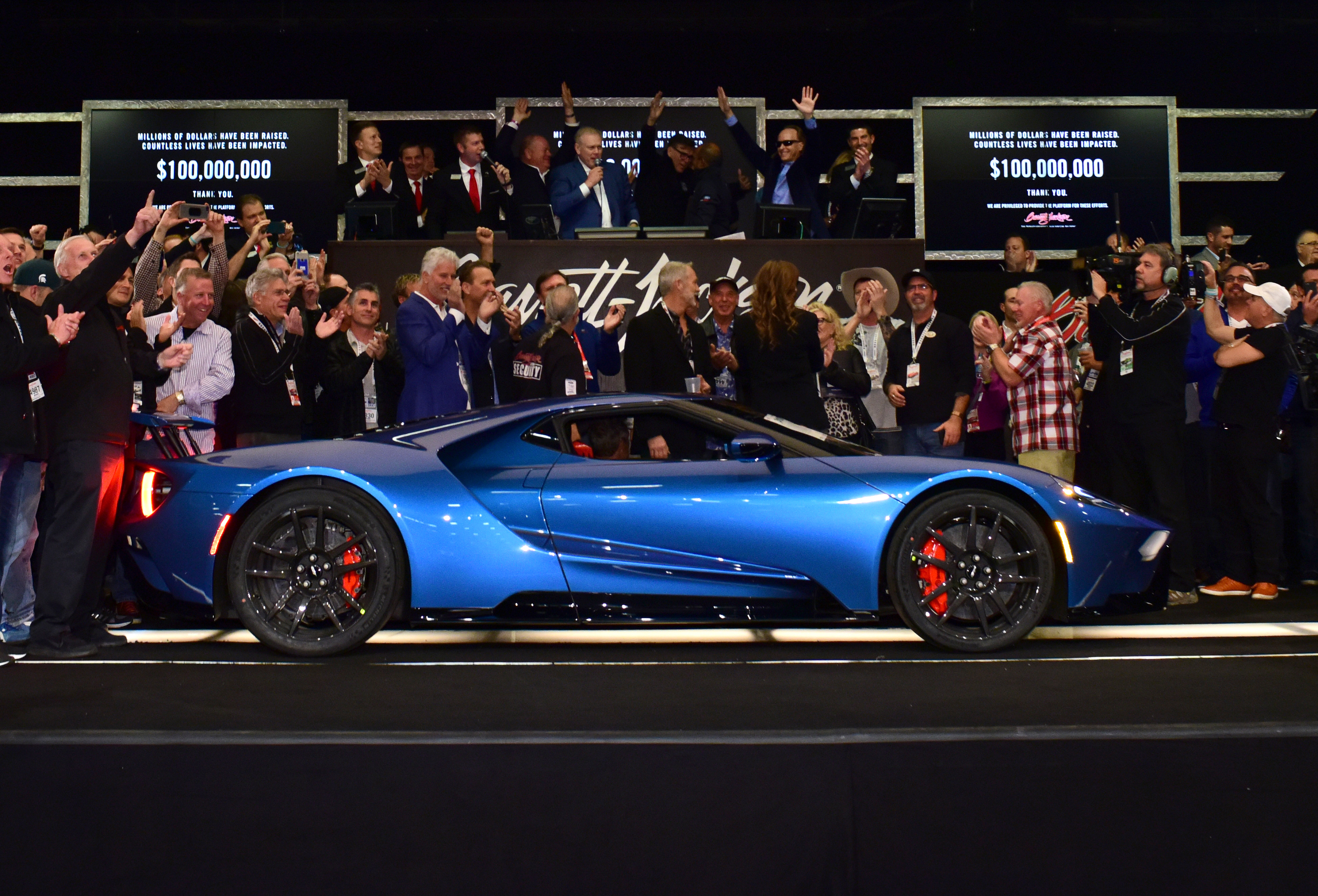 A 2017 Ford GT raised $2.55 Million for charity at the 2018 Scottsdale Auction, helping Barrett-Jackson reach nearly 102 Million total raised for charity in the company's history. Photo Credit - Barrett-Jackson